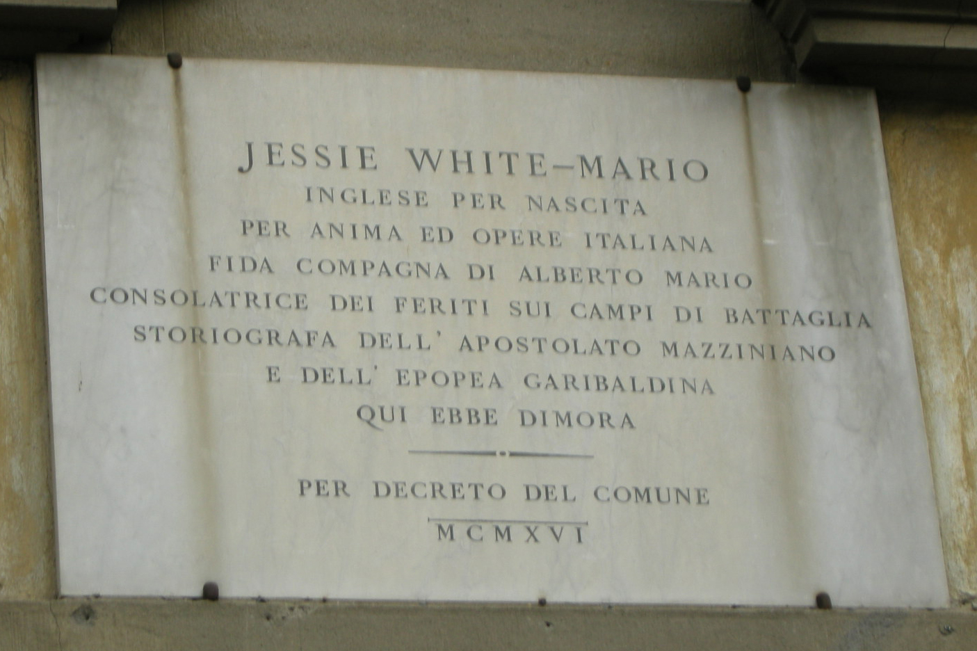 Via romana, targa jessie white-mario 2